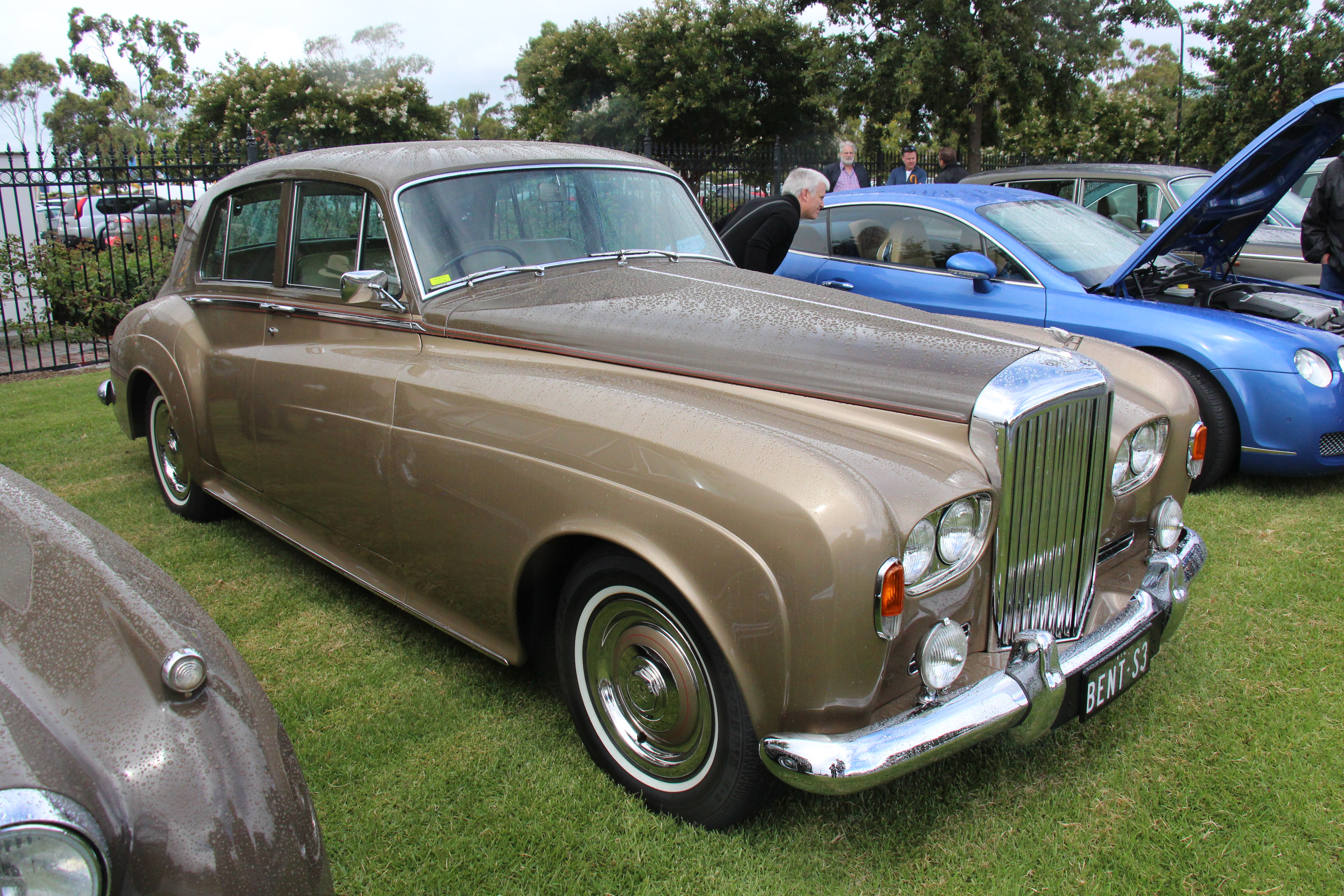 The Bentley S1, introduced in 1955, replaced the R Type, it got a completely new external appearance, longer and lower, although with the traditional radiator grille. The S1 was updated in 1959 with the S2, the old L series 6 cyl replaced with an aluminium V8, a new dash and steering wheel. The next update was in 1962 with the S3, similar mechanically, but visually the S3 got the twin headlights, a slightly lower bonnet line and individual front seats As with the Bentleys, only the grille and badging differed from the Rolls-Royce, with the S3, the Silver Cloud III. Again, the S3 was available in 4 door Saloon and the coach built high performance S3 fixed head and drop head Coupes Engine; 6200cc V8